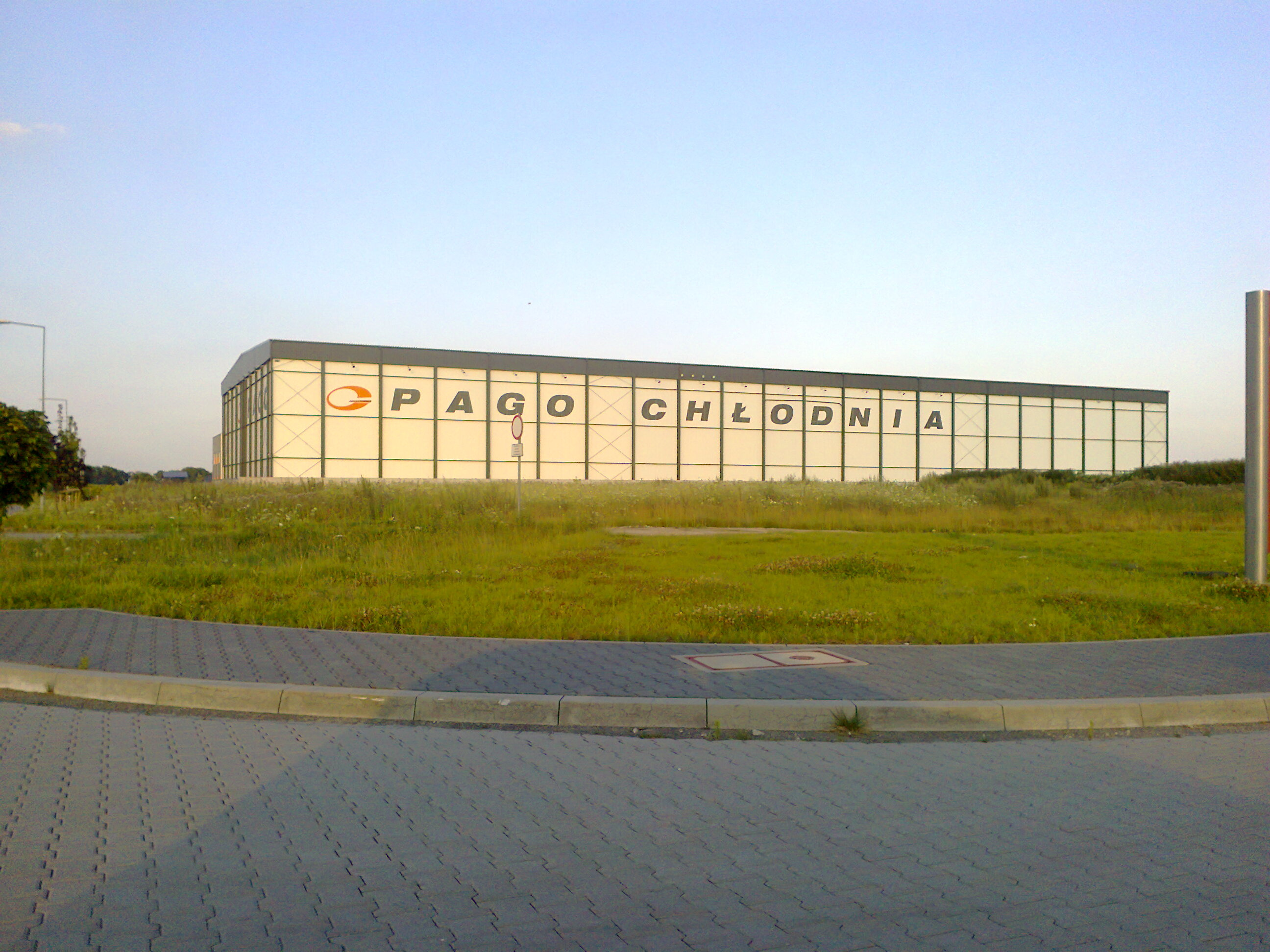 PAGO-cold-store, Grodzisk Wielkopolski (Poland)